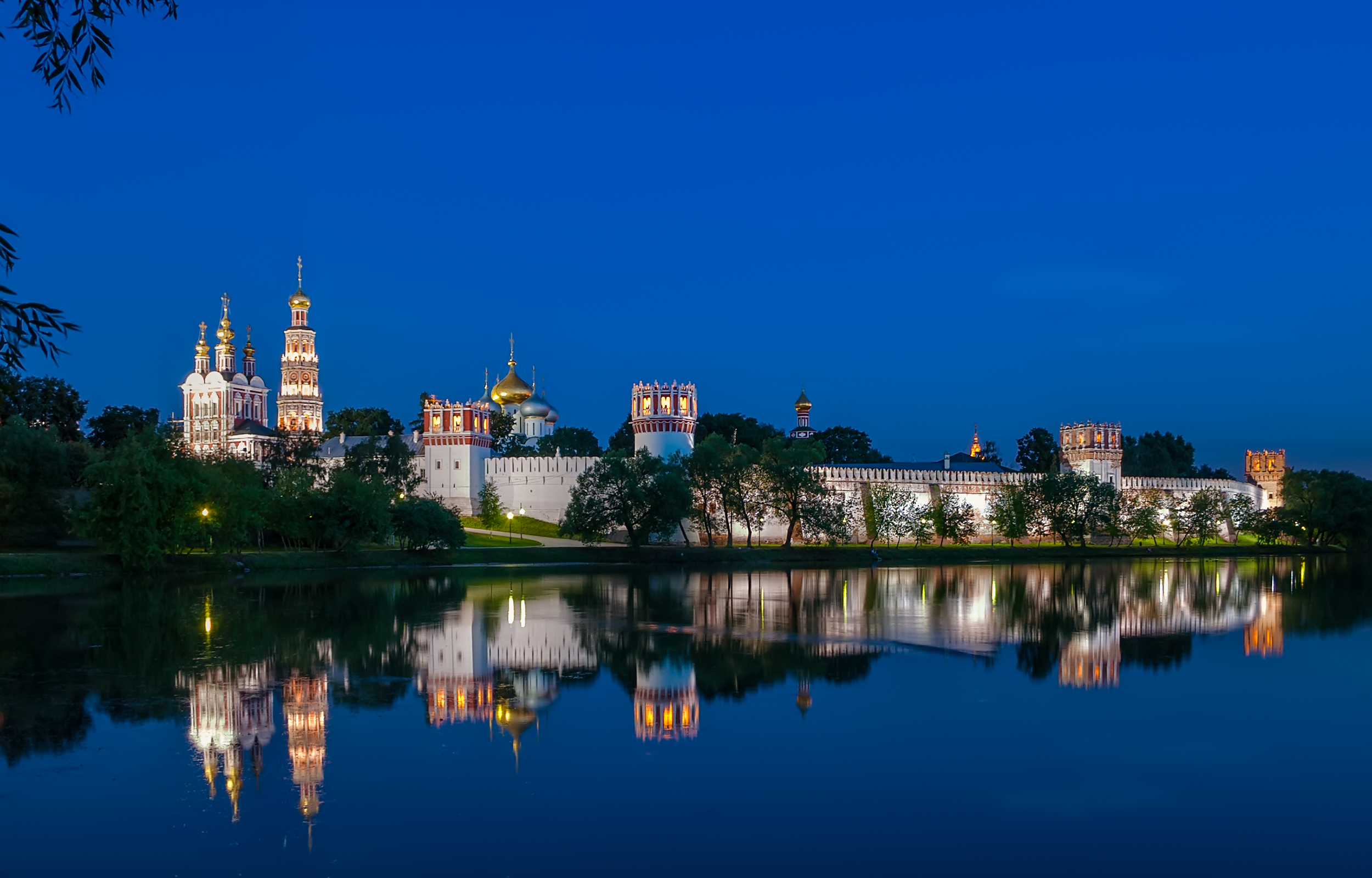 Novodevichy Convent at night, Moscow, Russia